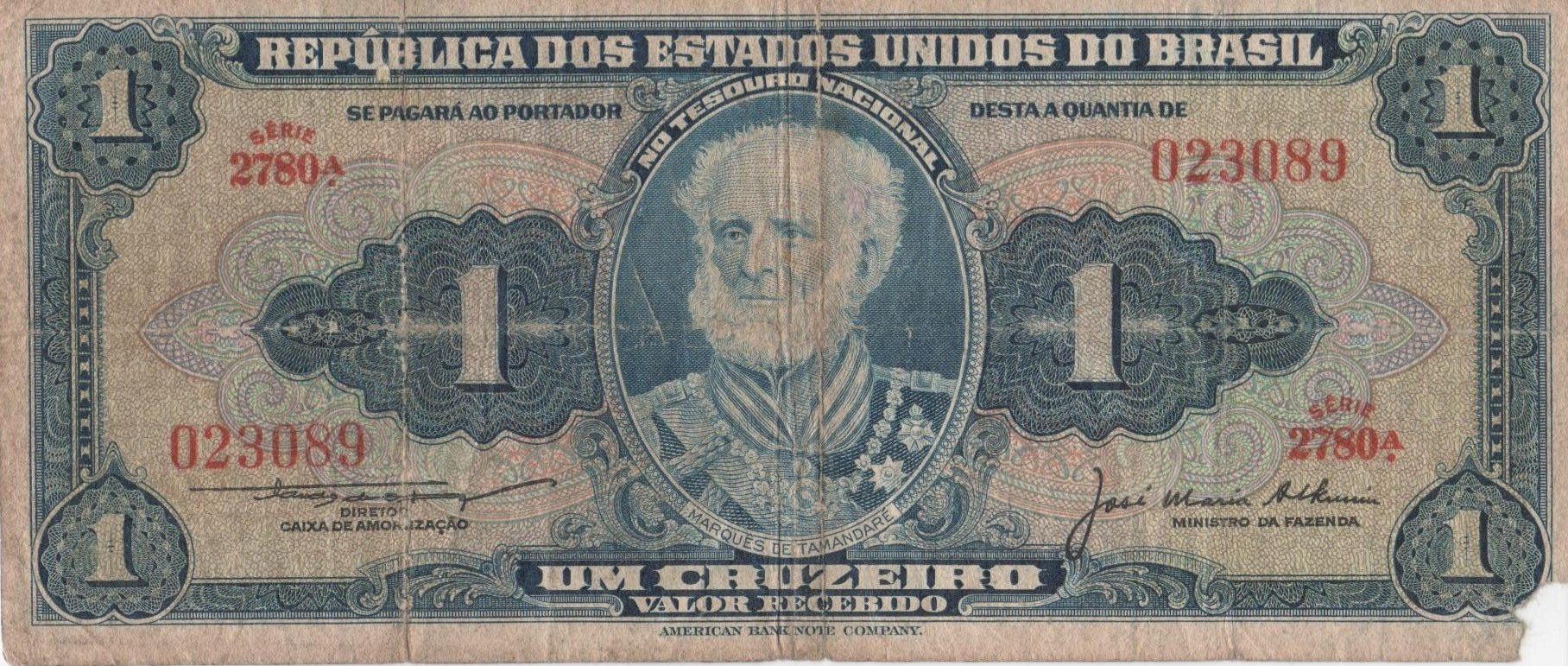 1 cruzeiro